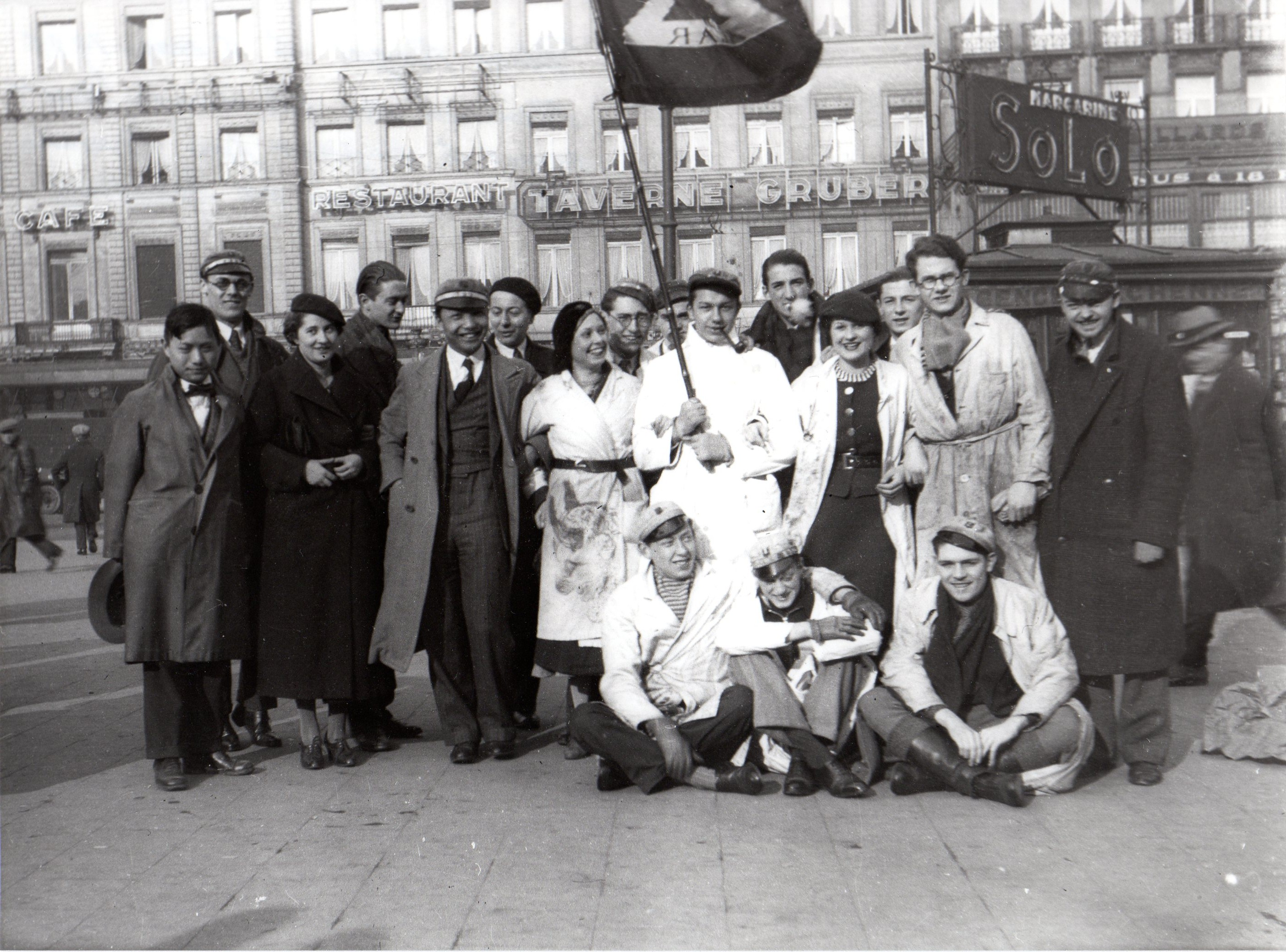 Place Rogier in Brussels on 5 March 1935. Meeting of architecture students before departure to Binche. The flag bearer is Victor Gaston Martiny